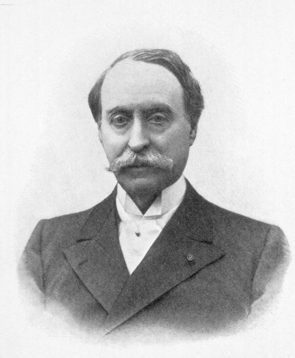 Paul Georges Dieulafoy (November 18, 1839 – August 16, 1911)